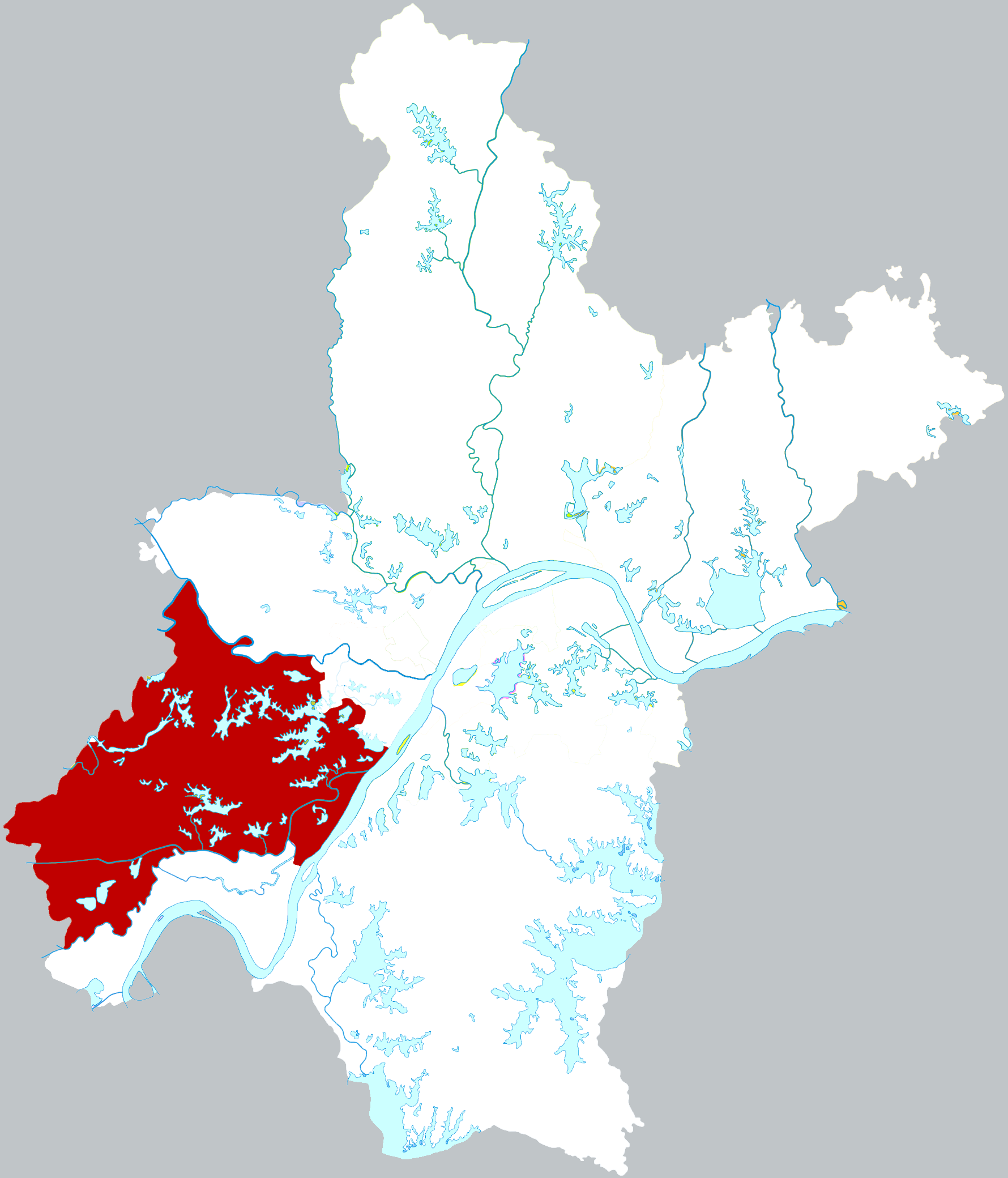 Location of Caidian district in Wuhan city, China